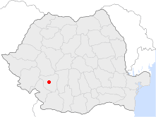 Location of Târgu Jiu in Romania.